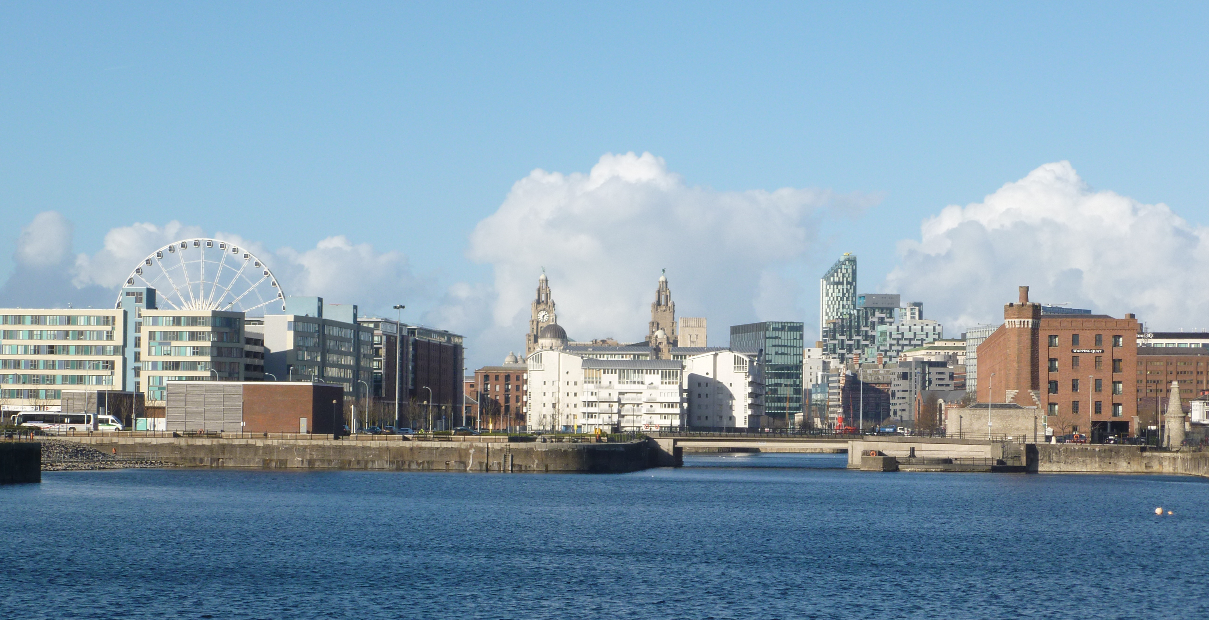 View north across Queens Dock, Liverpool, from Mariners Wharf